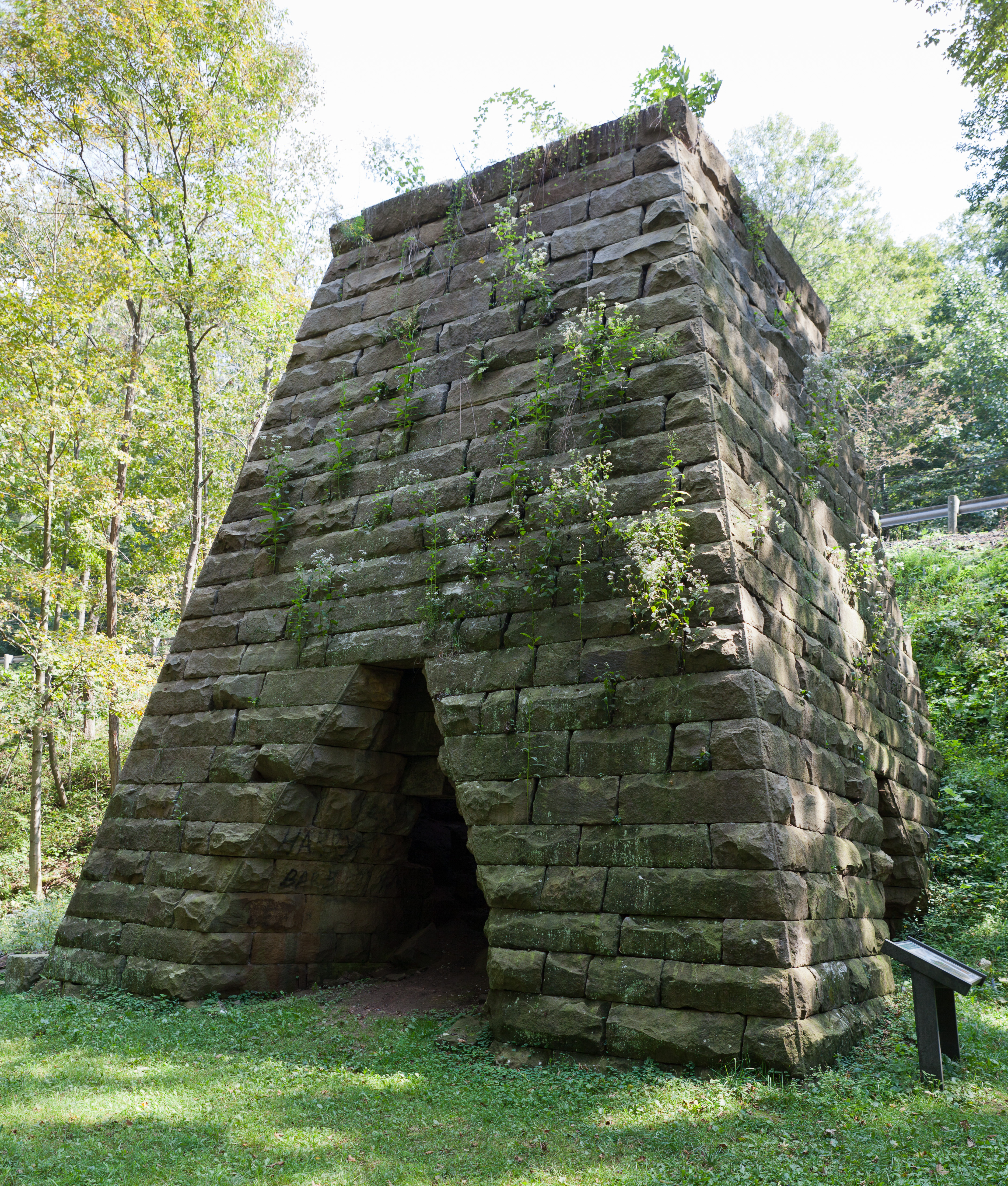 Virginia Furnace (west face), WV 26, along Muddy Creek Albright